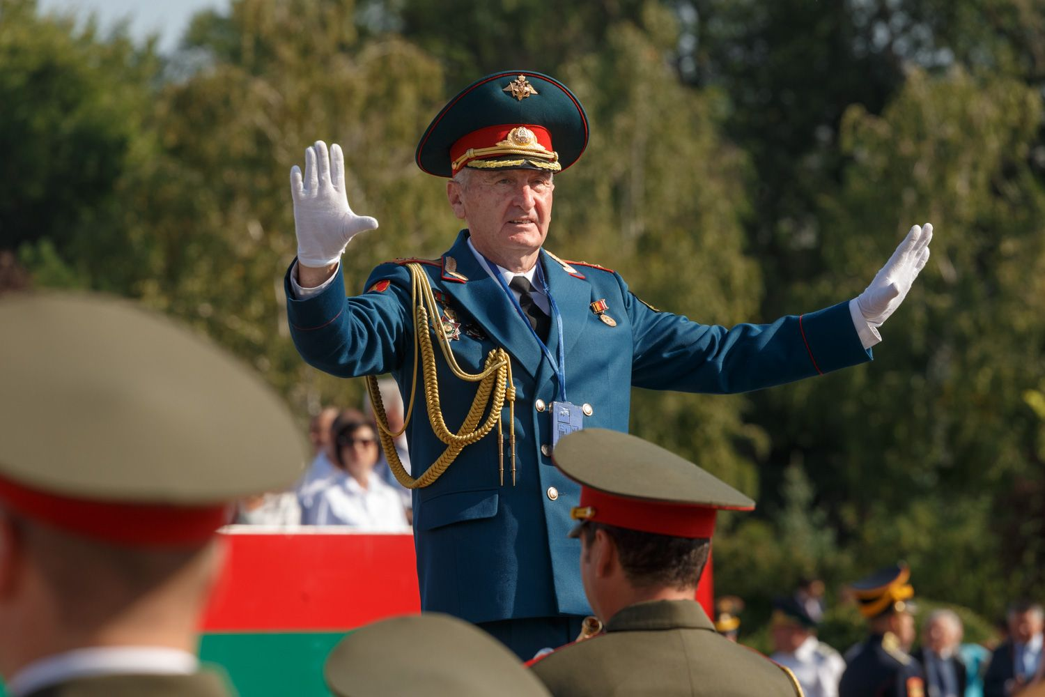 Военный парад по случаю 27-летия образования Приднестровской Молдавской Республики.